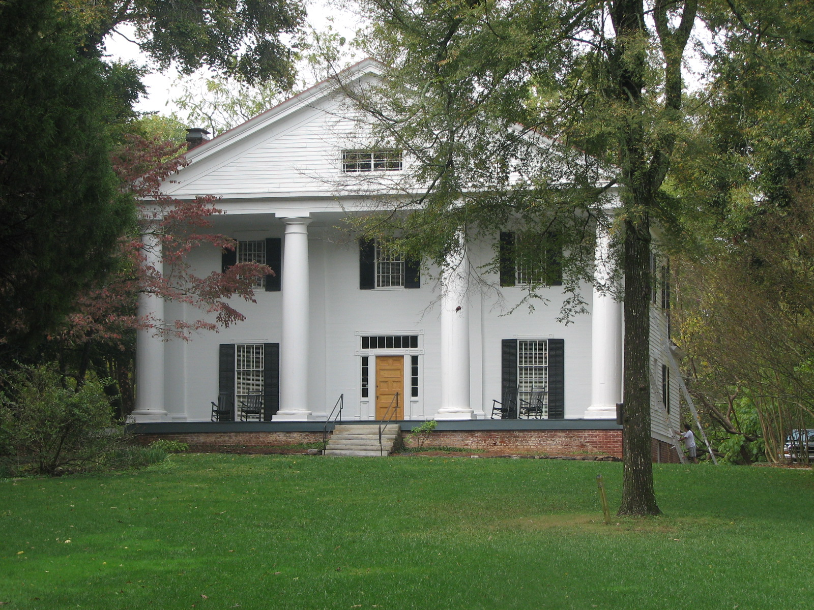 Bulloch Hall in Roswell, GA. In this home, Theodore Roosevelt, Sr. and Martha Bulloch, the parents of 26th US President, Theodore Roosevelt, were married in December of 1853.